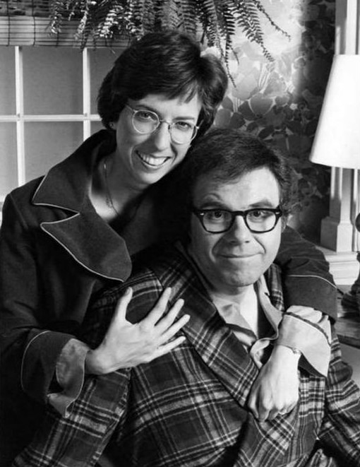 Publicity photo of Beverly Archer and Oliver Clark in the television program We've Got Each Other.